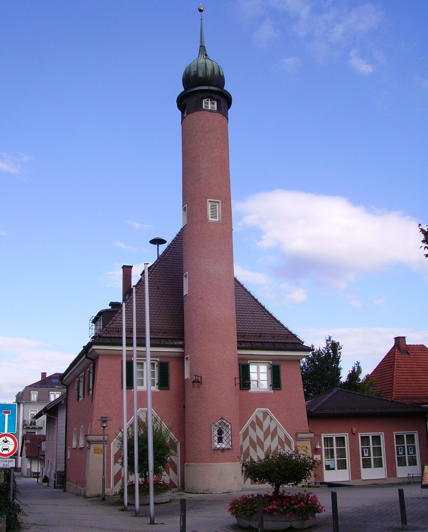 town in Germany